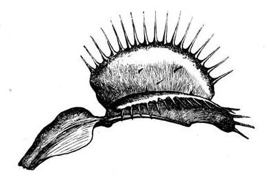 figure from the german translation of the book "Charles Darwin Insectenfressende Pflanzen"